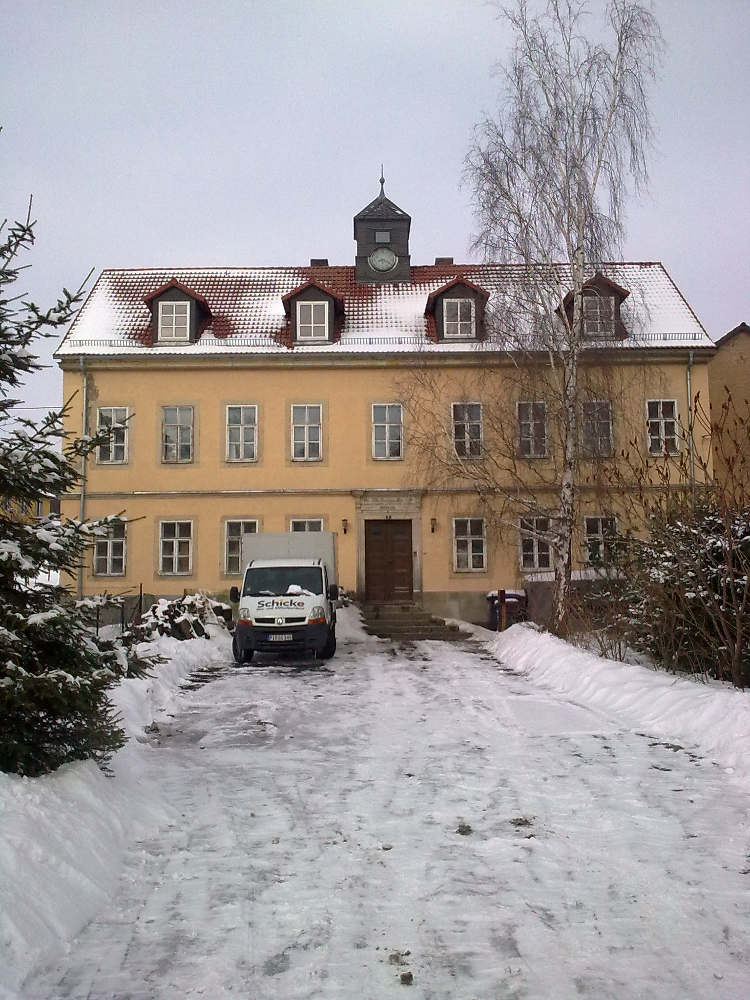 Old school in Niederhermsdorf, Freital-Wurgwitz